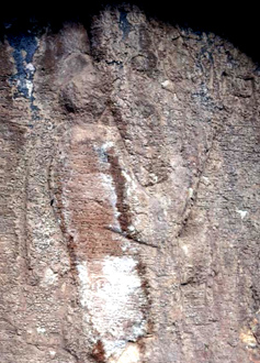 Tang-i Var Rock Relief at Iranian Kurdistan, Assyrian